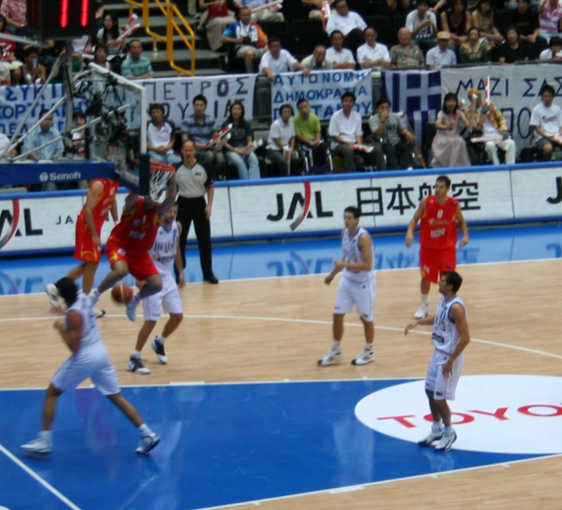 Basketball World Cup 2006 in Japan. Dunking by a Spanish player (Felipe Reyes)during the final game against Greece (70:47)